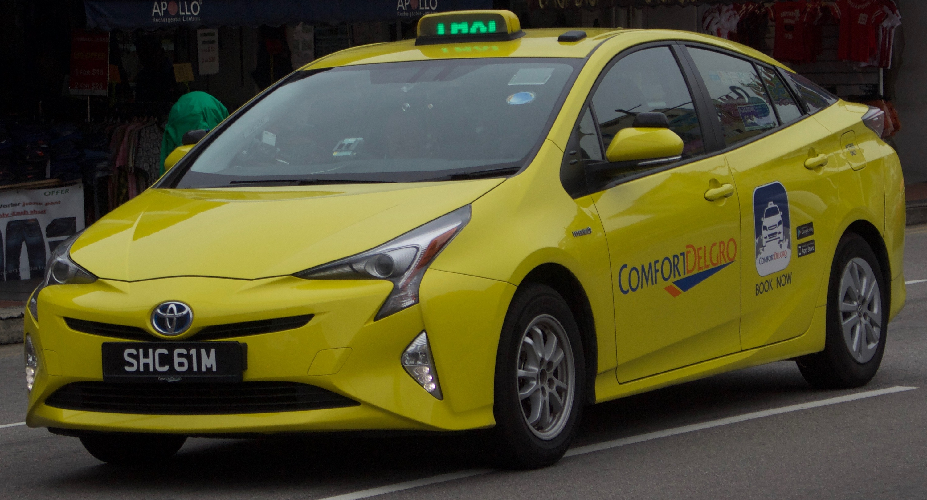 2016 Toyota Prius (XW50) 1.8S sedan, Citycab. Photographed at Little India, Singapore.